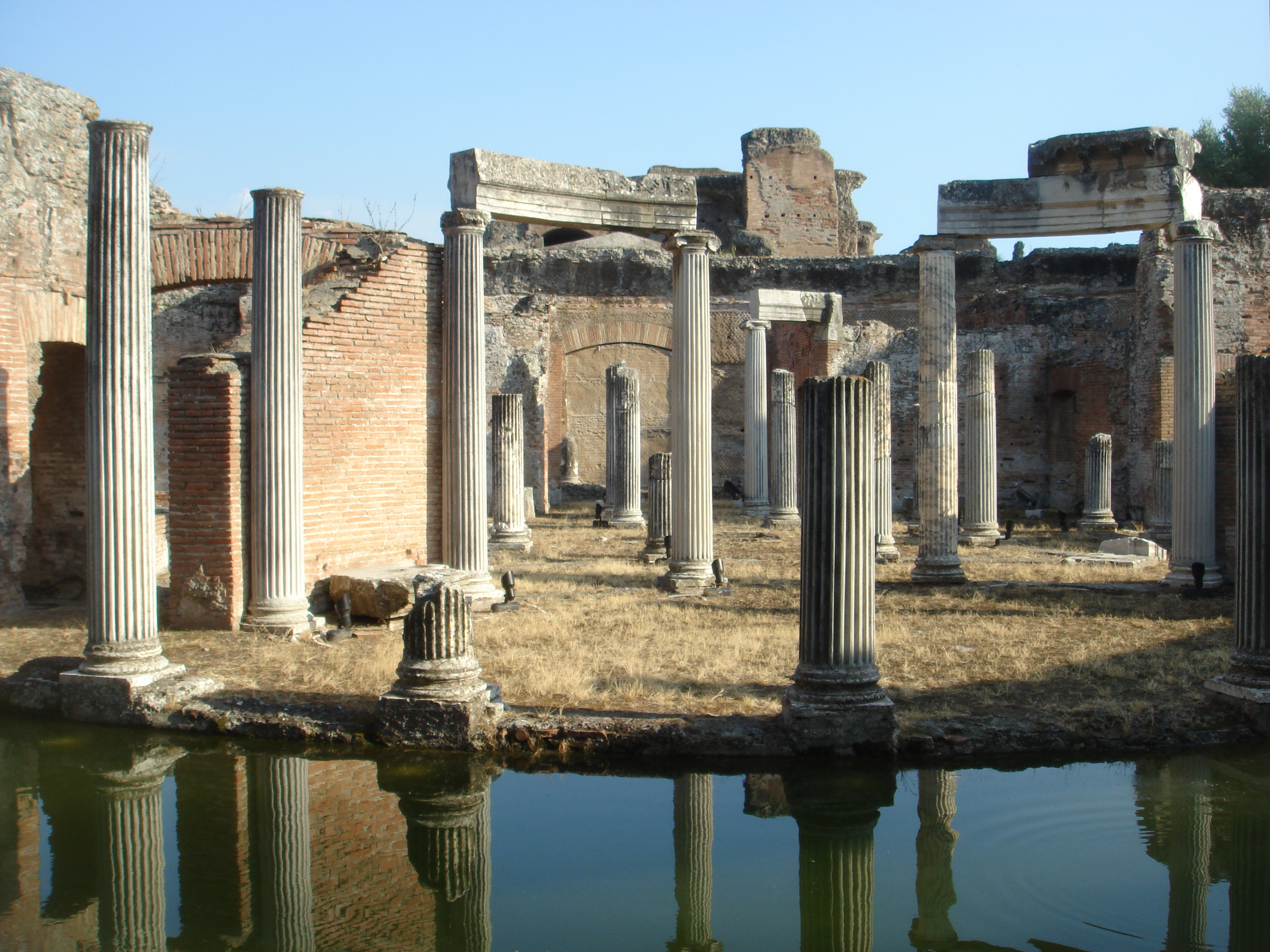 Self-taken picture of the maritime theatre at the Villa Adriana, the ruins of Hadrian's Imperial residence at Tivoli (near Rome). The villa was declared a World Heritage Site by the UNESCO in 1963 and is actually opened to the public.